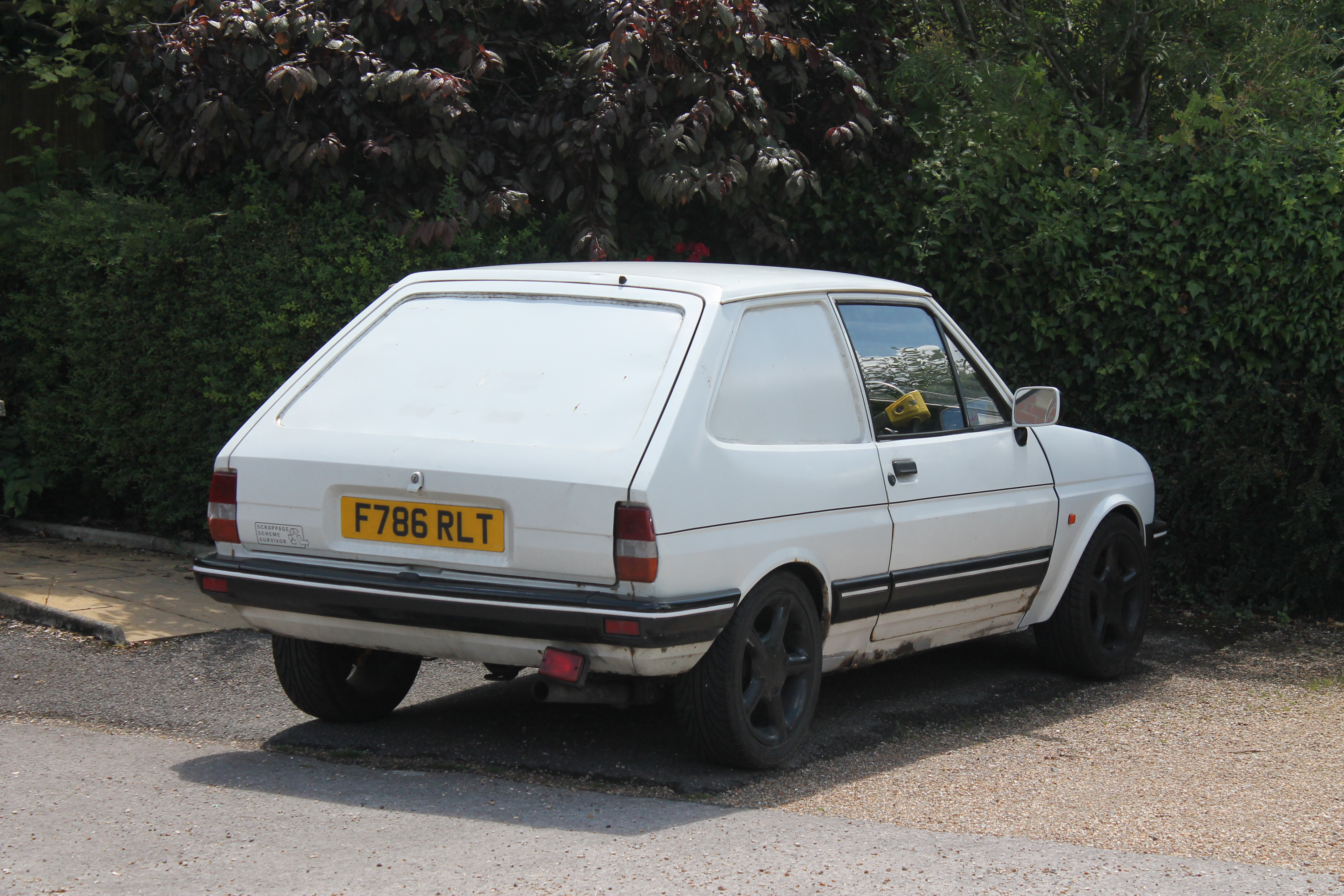 Interesting one, seen in my local town- haven't seen it around before. Looks a bit souped up, with what I believe are Mk2 Mondeo alloys painted black. Nice to see a steering lock on it though, these cars were notoriously easy to steal. It's got a nice 'scrappage scheme survivor' sticker on the rear. The vehicle details for F786 RLT are: Date of Liability 01 10 2014 Date of First Registration 08 03 1989 Year of Manufacture 1989 Cylinder Capacity (cc) 1117cc CO₂ Emissions Not Available Fuel Type PETROL Export Marker N Vehicle Status Licence Not Due Vehicle Colour WHITE Vehicle Type Approval Not Available